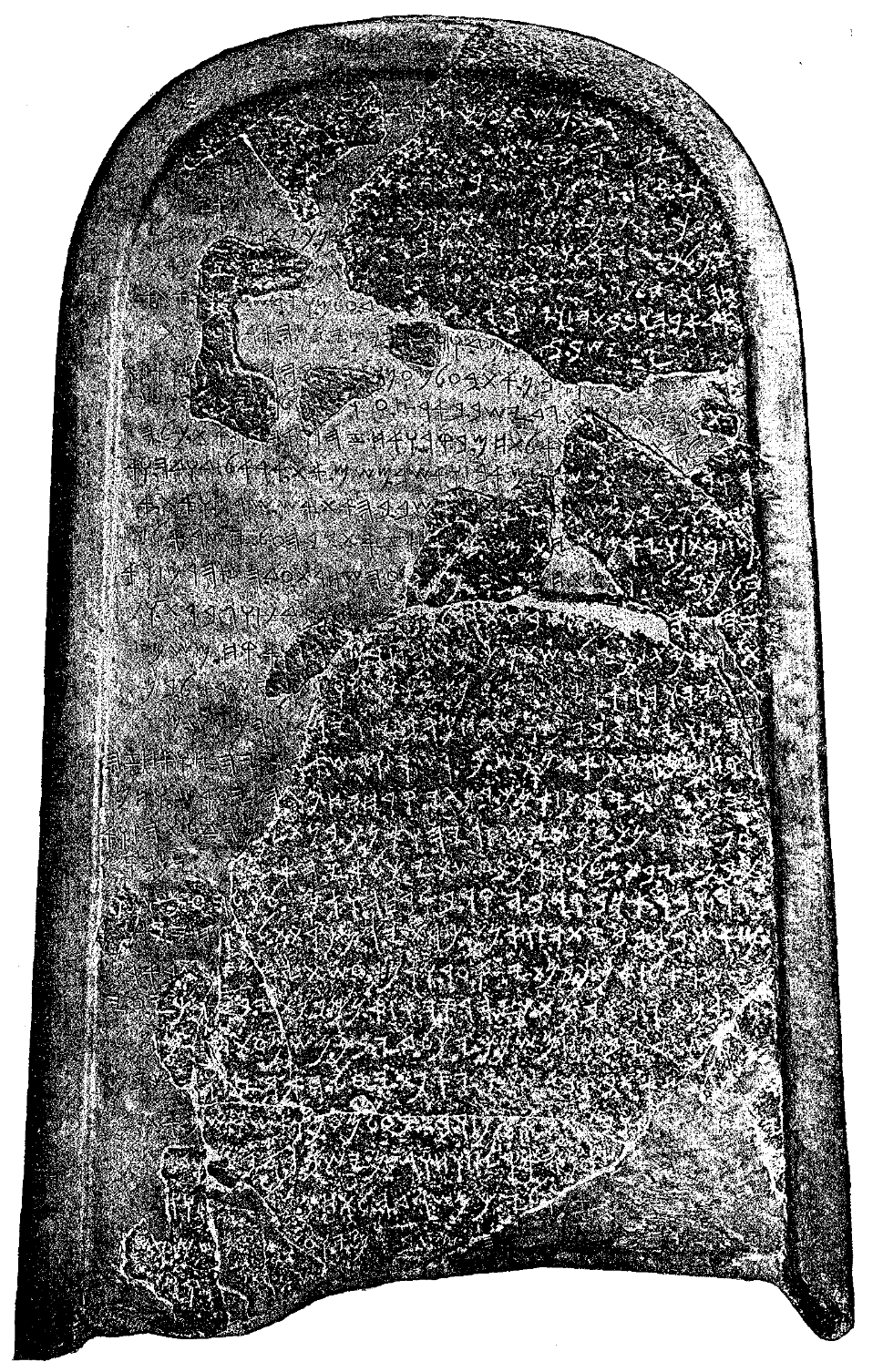 An illustration from the Encyclopaedia Biblica, a 1903 publication which is now in the public domain. For article "Mesha". Image of the Mesha Stele (this is from a slightly different angle, closer, and with greater contrast, compared to File:Mesha stele.jpg)